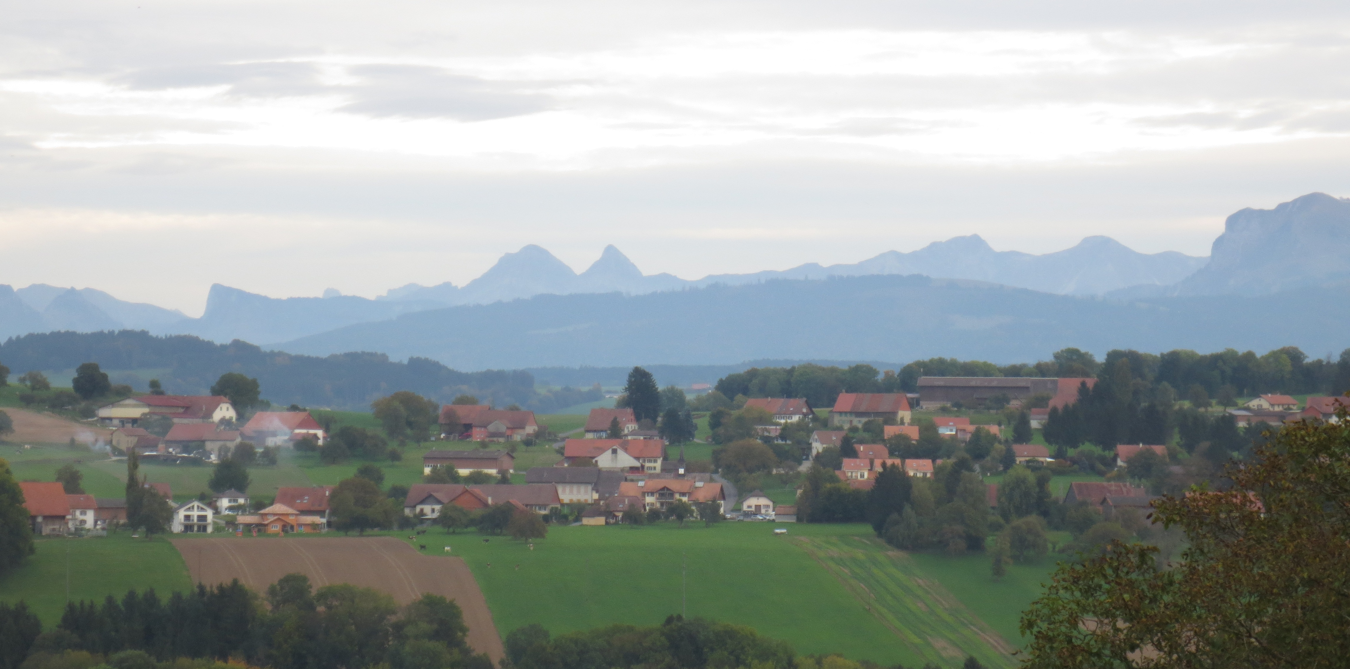 Vulliens, Canton of Vaud, Switzerland